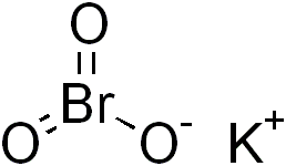 chemical structure of potassium bromate